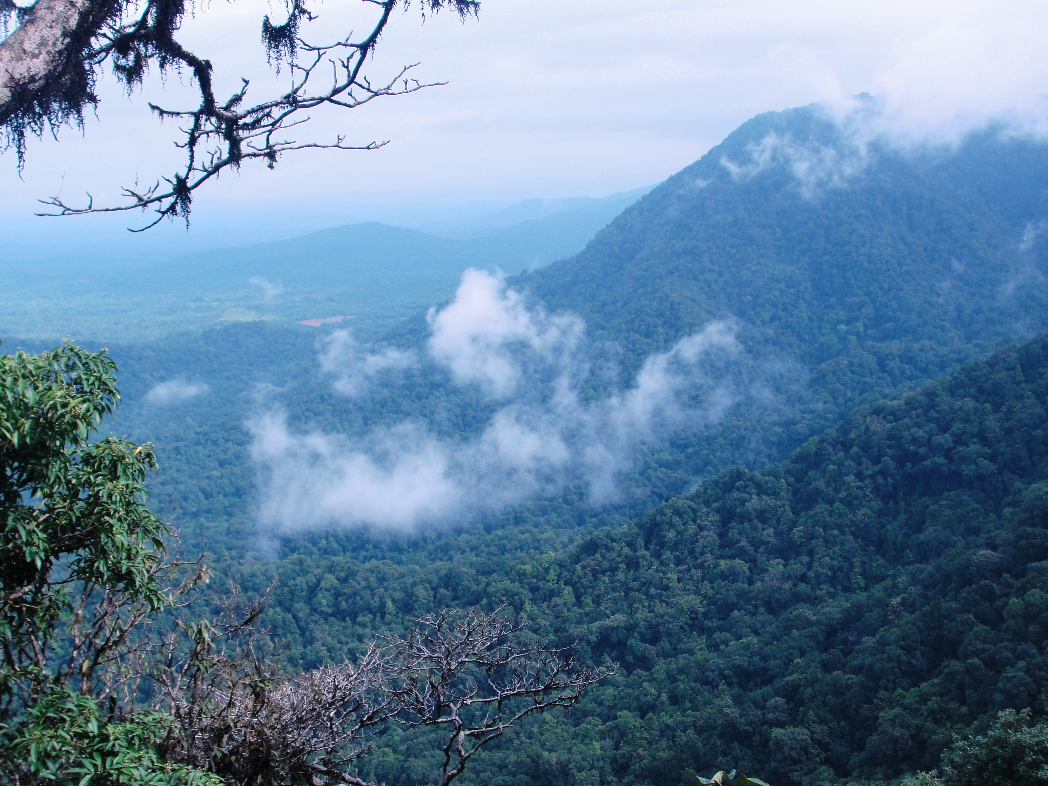 Agumbe View point, Karnataka